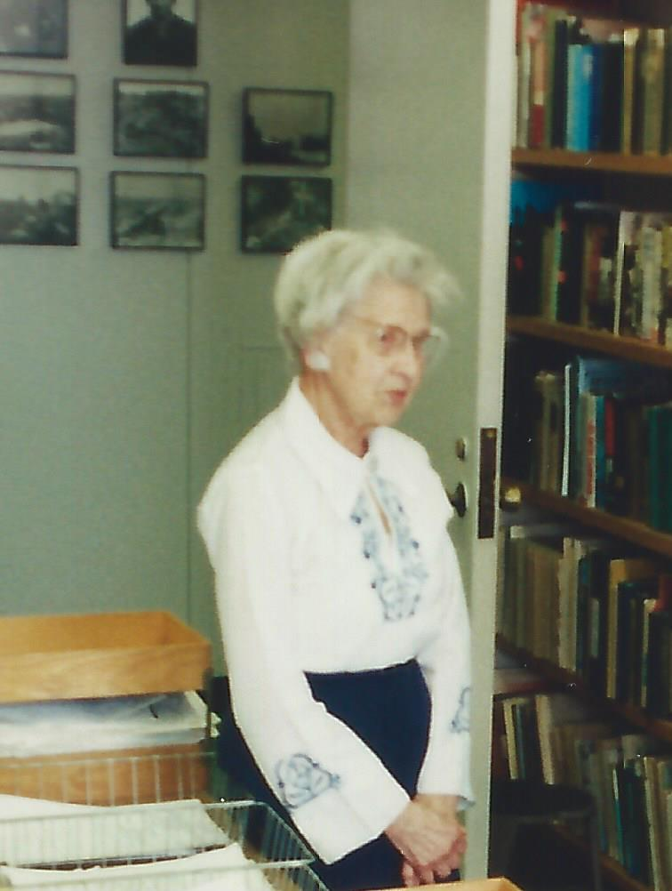 International relations scholar Annette Baker Fox in the offices of Columbia University's Institute of War and Peace Studies, where she was a research associate for many years.